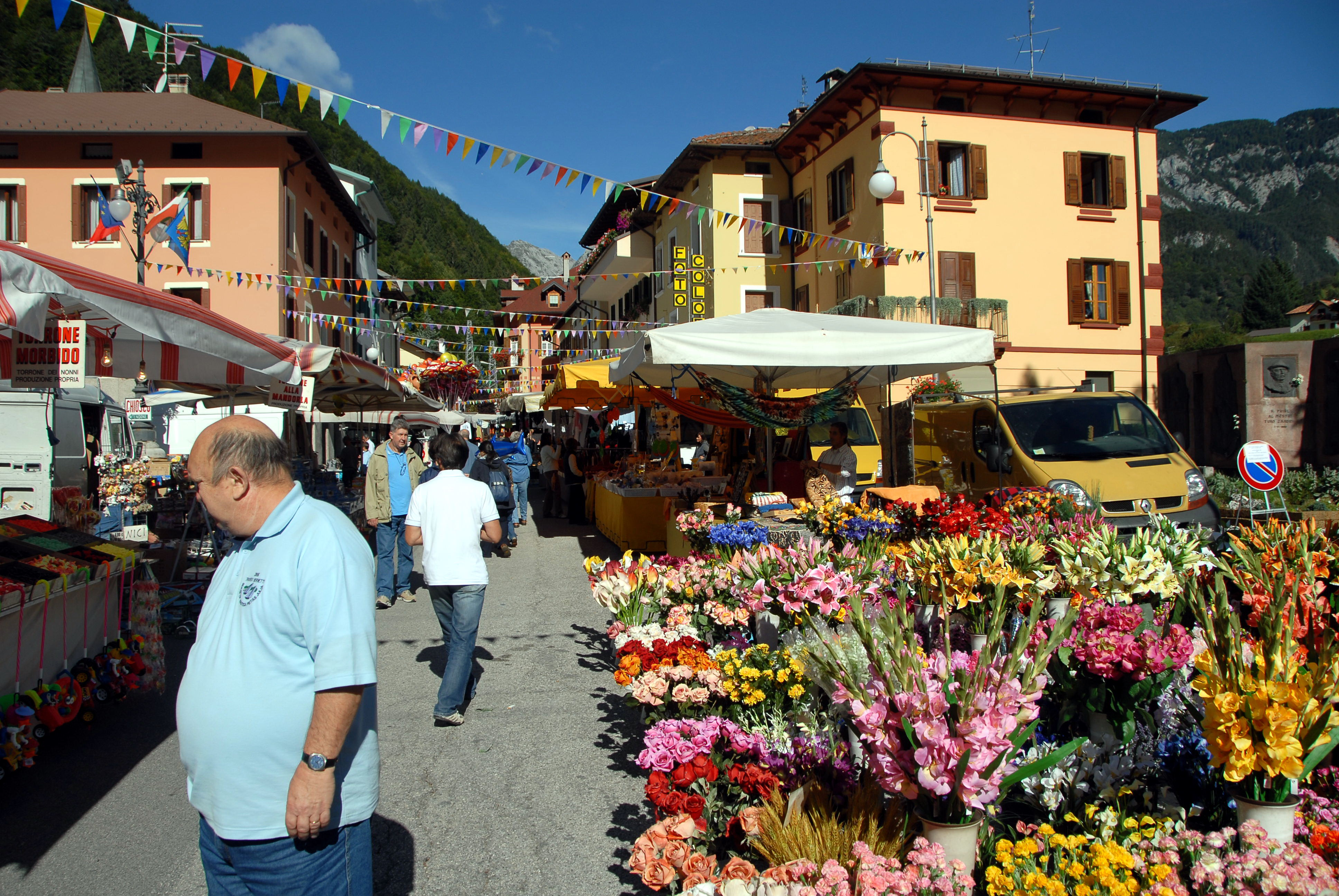 Market on the dey of Birth of the Blessed Virgin Mary (September 8th) in Malborghetto, Val Canale, province of Udine, region Friuli-Venezia Giulia, Italy / EU